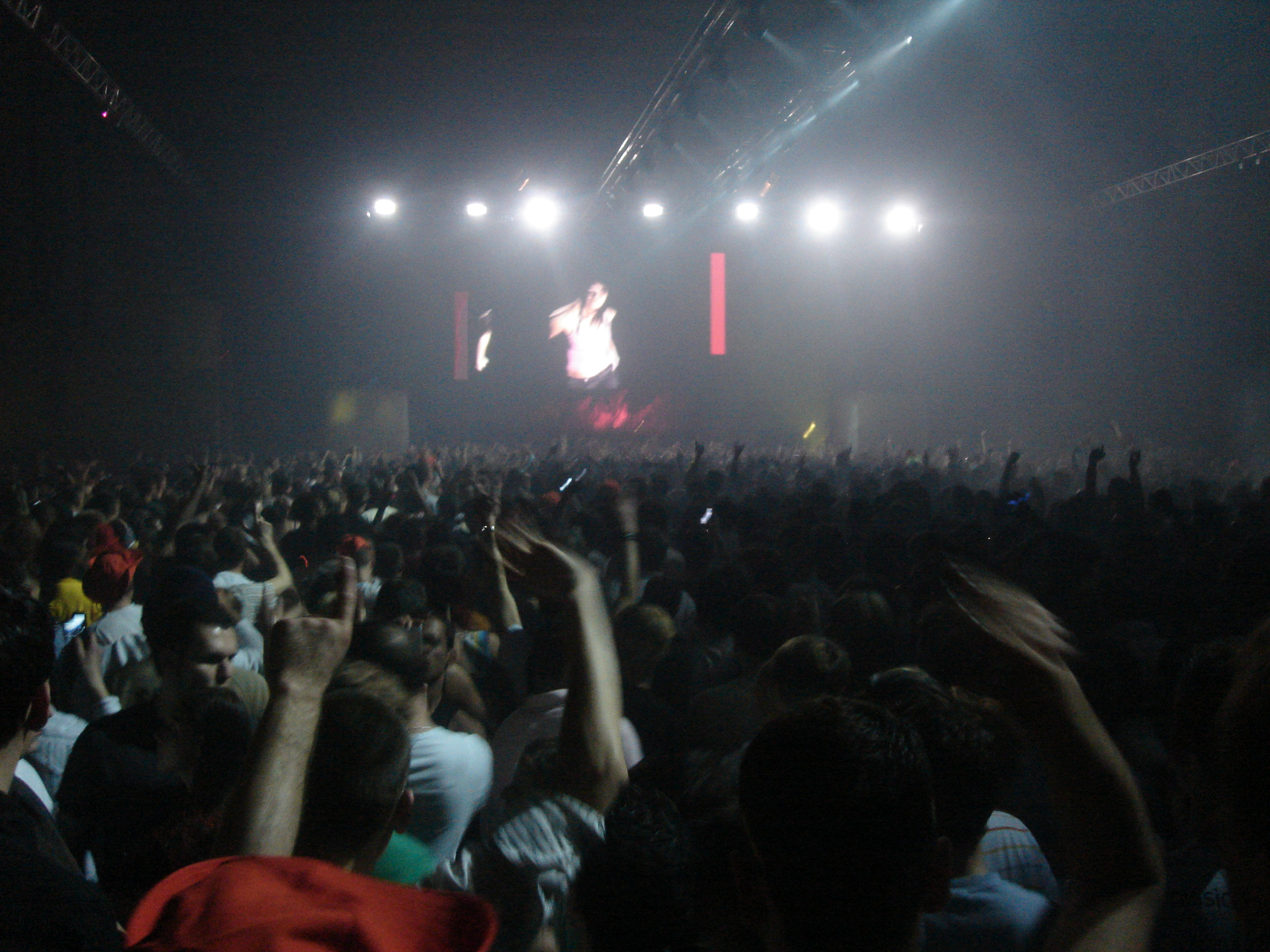 TDK Time Warp